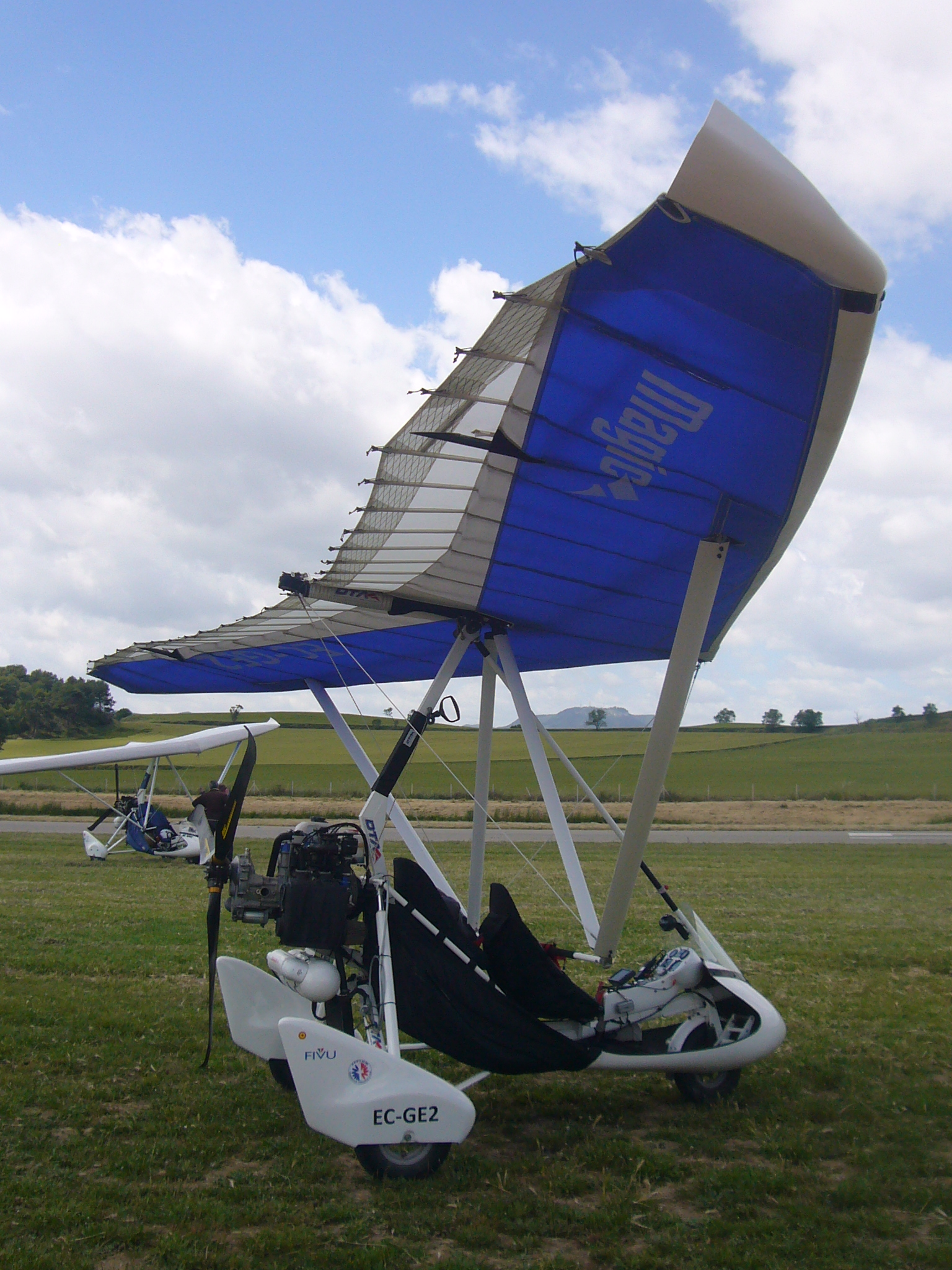 EC-GE2 (aircraft)